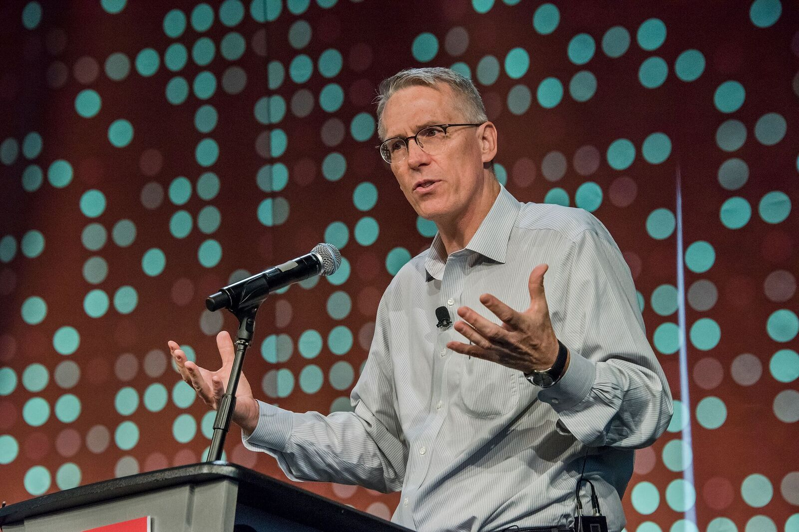 Professor Geoffrey Parker, Thayer School of Engineering, Dartmouth College also serves as Director of the Master of Engineering Management program.